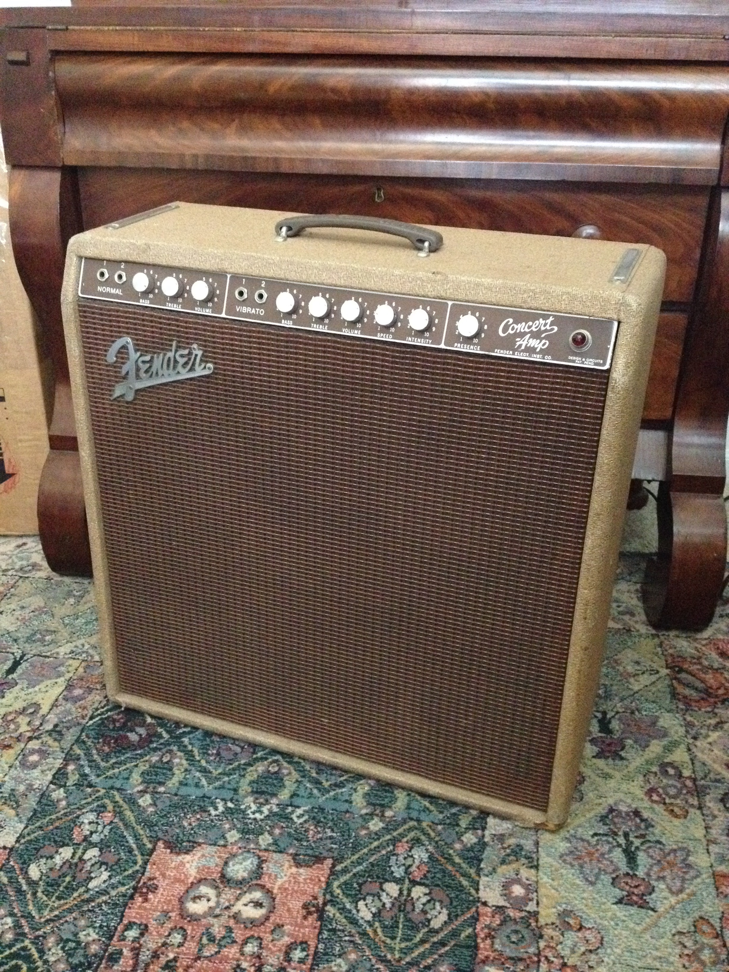 First production Concert Amp, late 1959. Prototype metal knobs, center-volume control, no tube chart or metal corners. Model similar to 5G12.